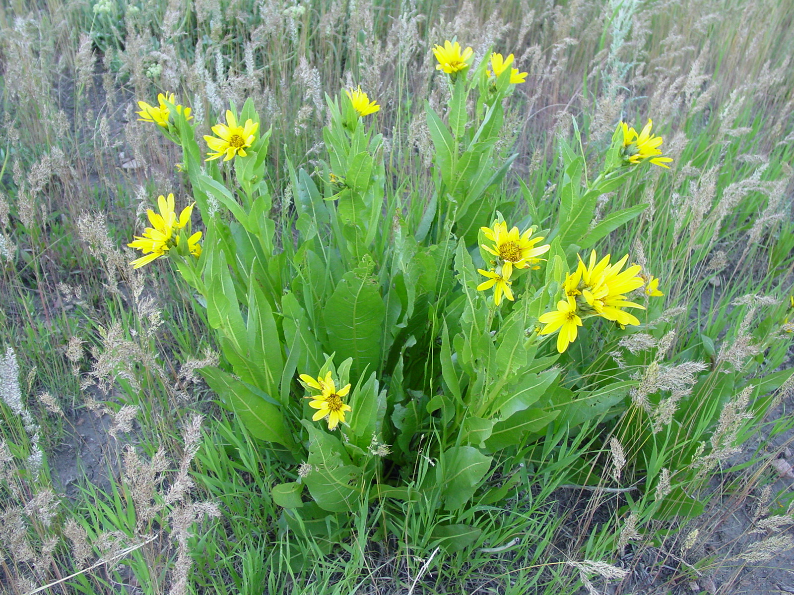 Wyethia amplexicaulis. City of Rocks National Preserve, Idaho, USA.